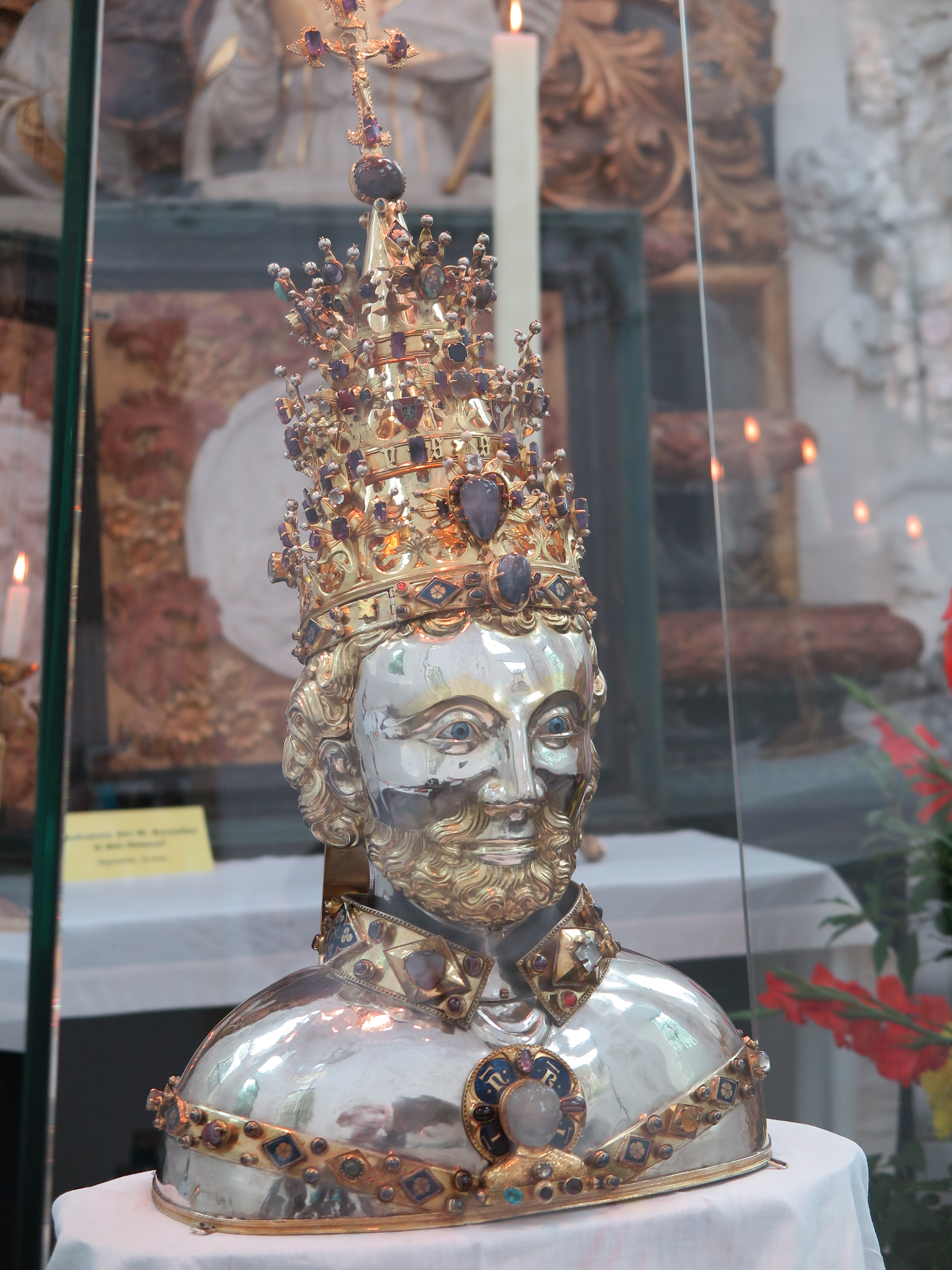 Head Reliquary of Saint Cornelius in the St. Kornelius chapel of the abbey church of Kornelimünster Abbey in Kornelimünster during the Kornelimünster pilgrimage 2014